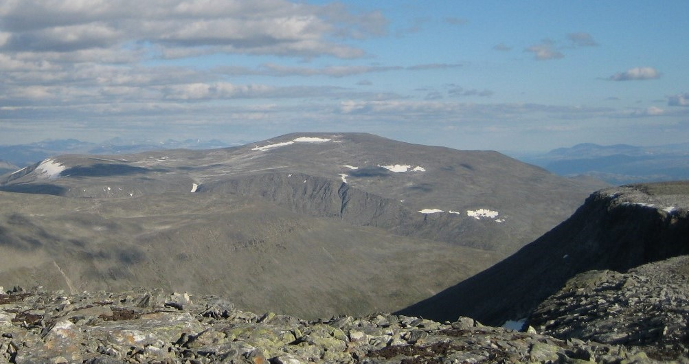 Sjongshøi (1954 m), as seen from Sørhellhøi